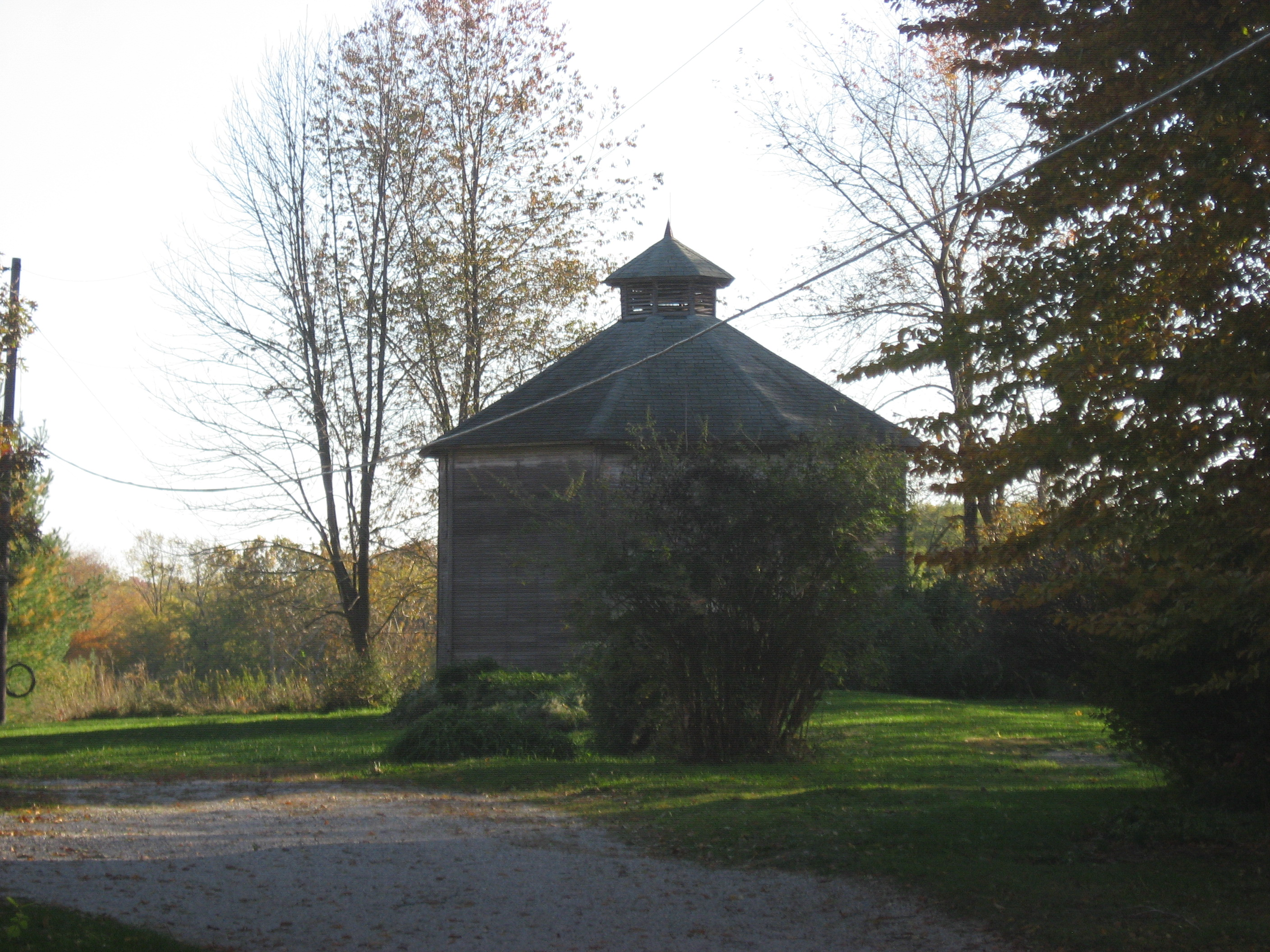 Streetside view of the William Hill Polygonal Barn, located on Academy Street in Bloomingdale, Indiana, United States. Built in 1905, it is listed on the National Register of Historic Places.